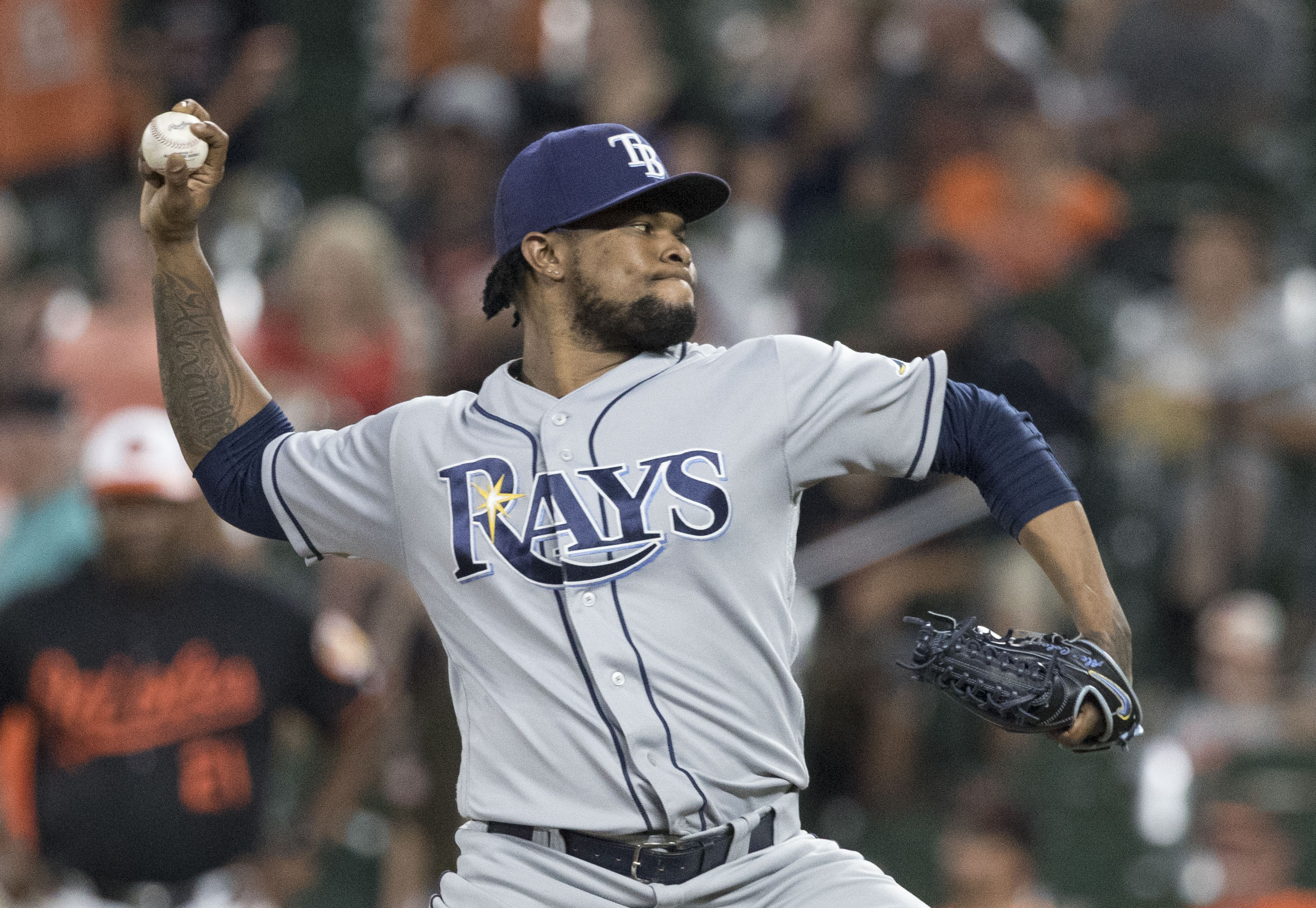 Alex Colome of the Tampa Bay Rays pitches during a game against the Baltimore Orioles at Oriole Park at Camden Yards on June 30, 2017 in Baltimore, MD.